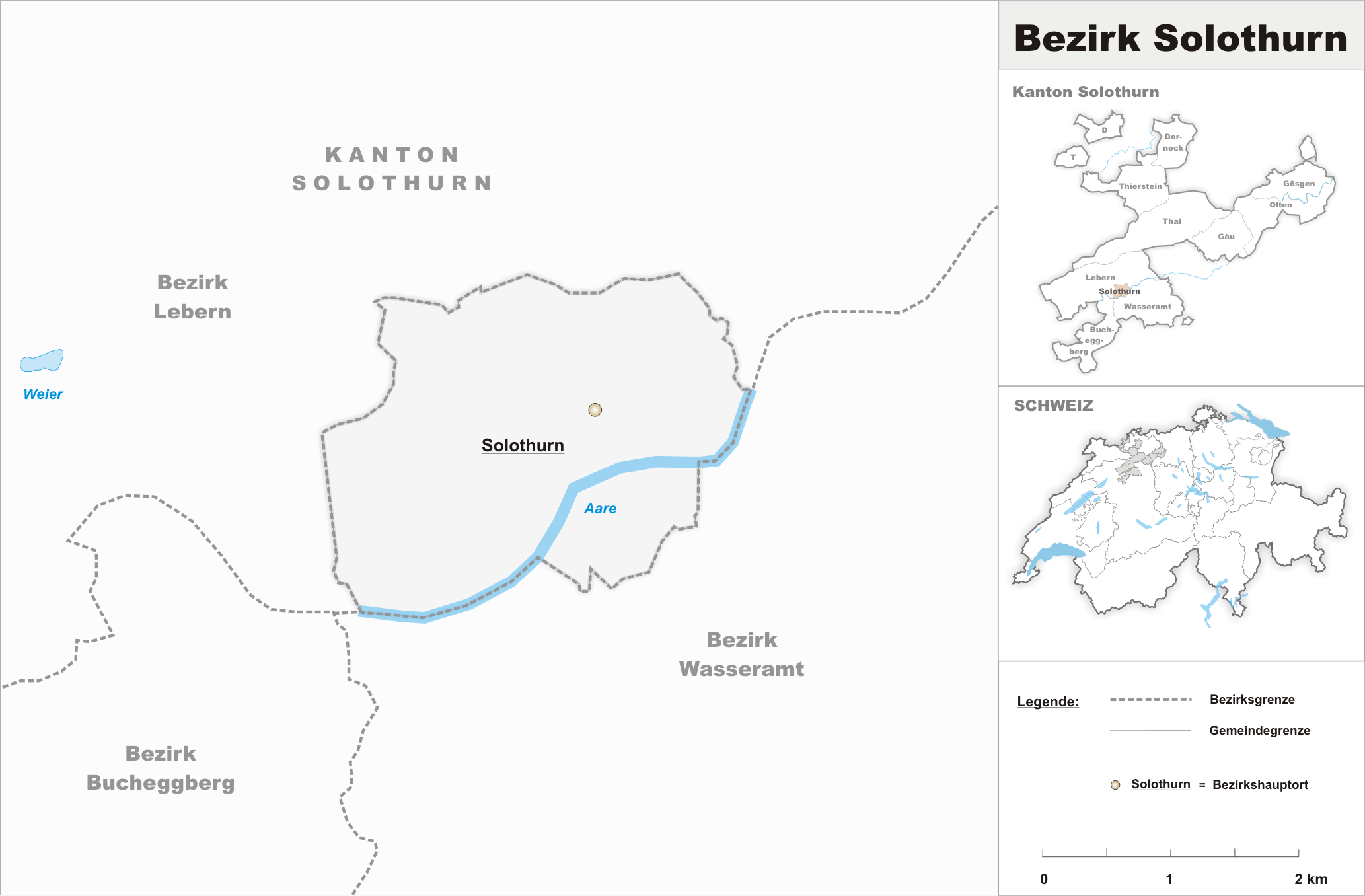 Municipalities in the district of Solothurn